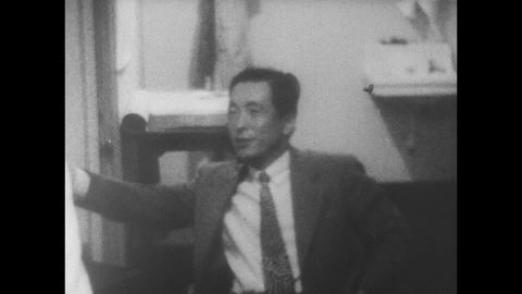 A hidden camera captures (Takeo Ezima), a Japanese spy and liaison to the Duquesne Spy Ring showing document to undercover FBI double-agent William Sebold, Abwehr agent code named: TRAMP. (New York)